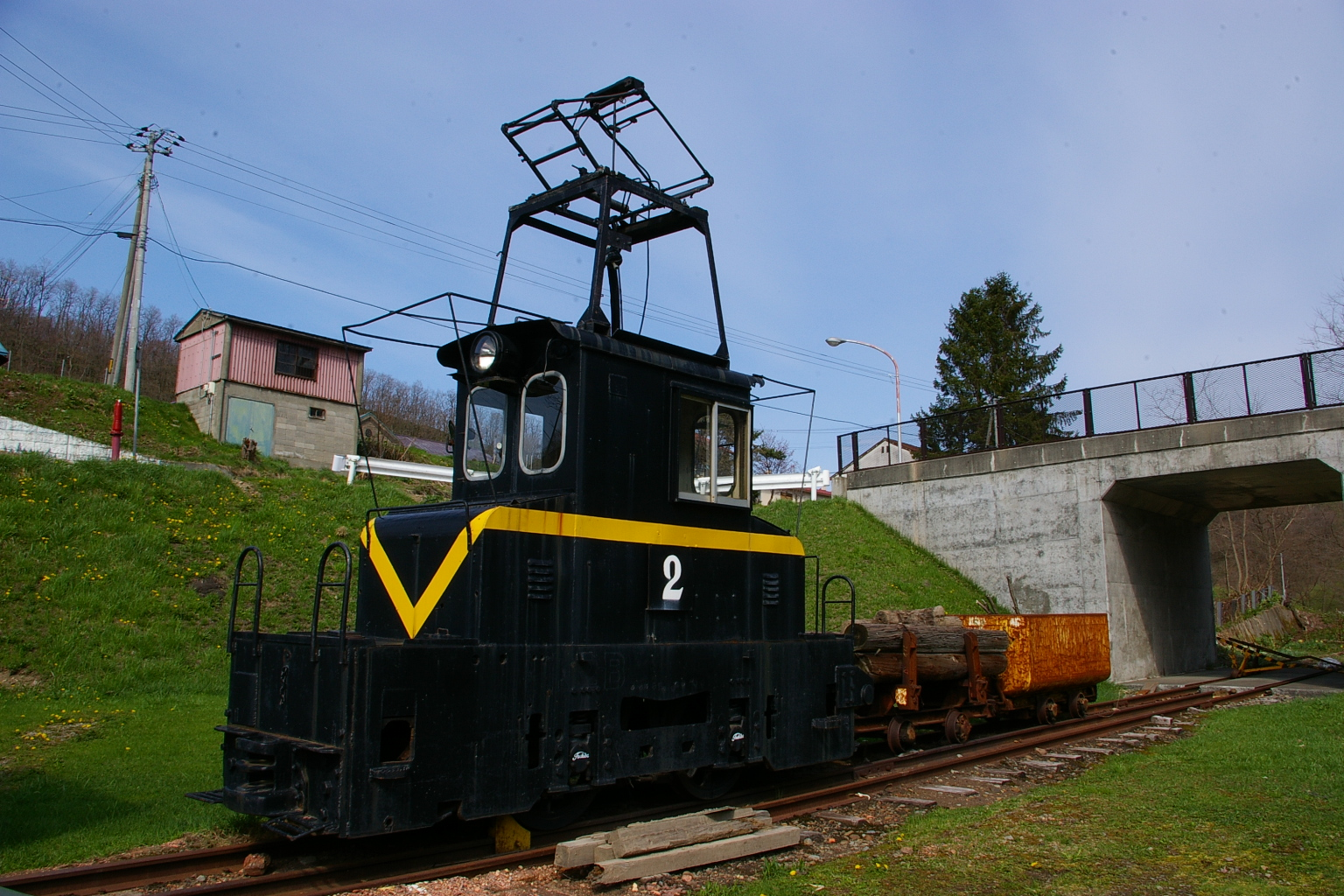 Narrow-gauge railway, in Mikasa railroad memorial hall.